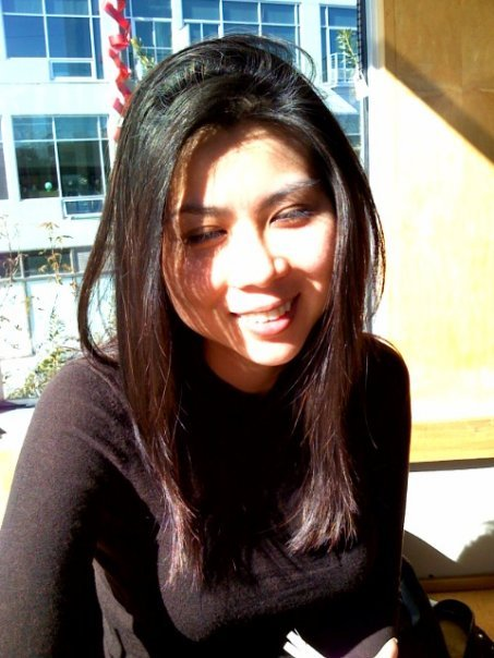 Corrinne Yu at Reikyu